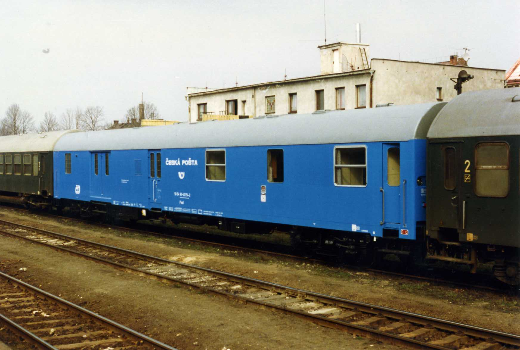 Railway post office in the Czech Republic. Not many years later in 1999 this service was abolished. It took a bit longer in the UK. (January 2004)